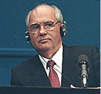 Mikhail Gorbachev in 1990 at Helsinki summit. Cropped version of US government image.